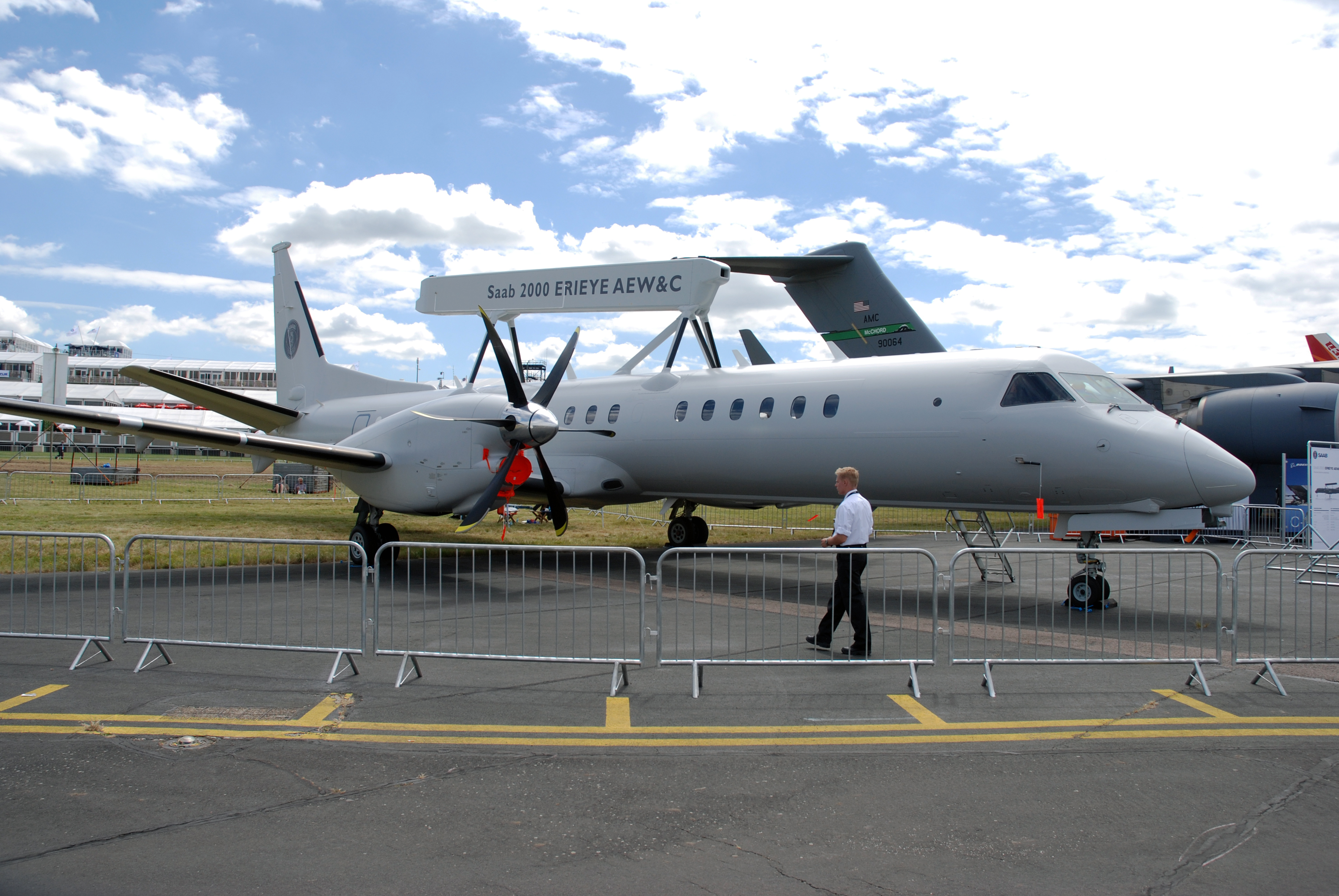 That bloke would not move...waited ages for the crowds to part a bit,and when they did,he was still there!